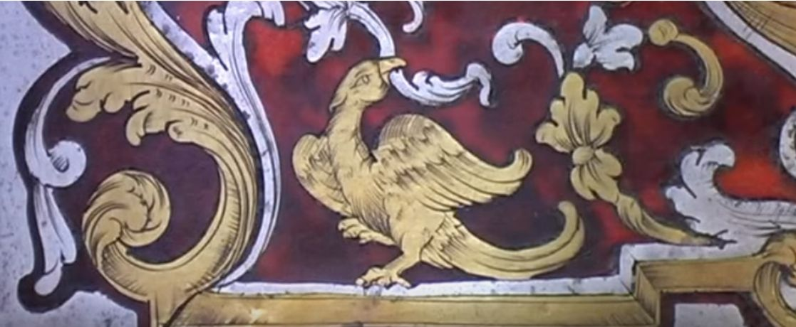 example of boulle work and turtle